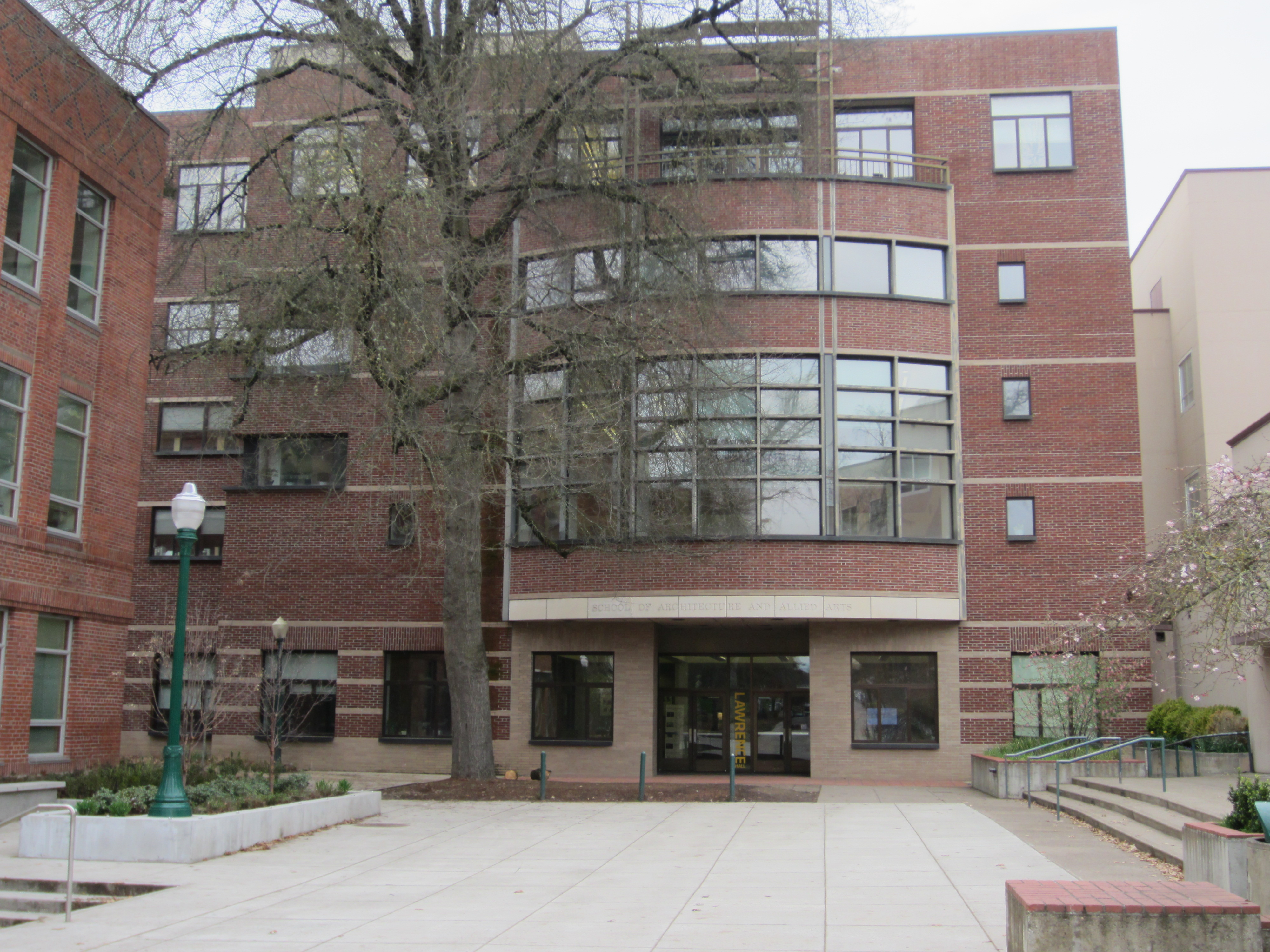 Lawrence, University of Oregon (2014)